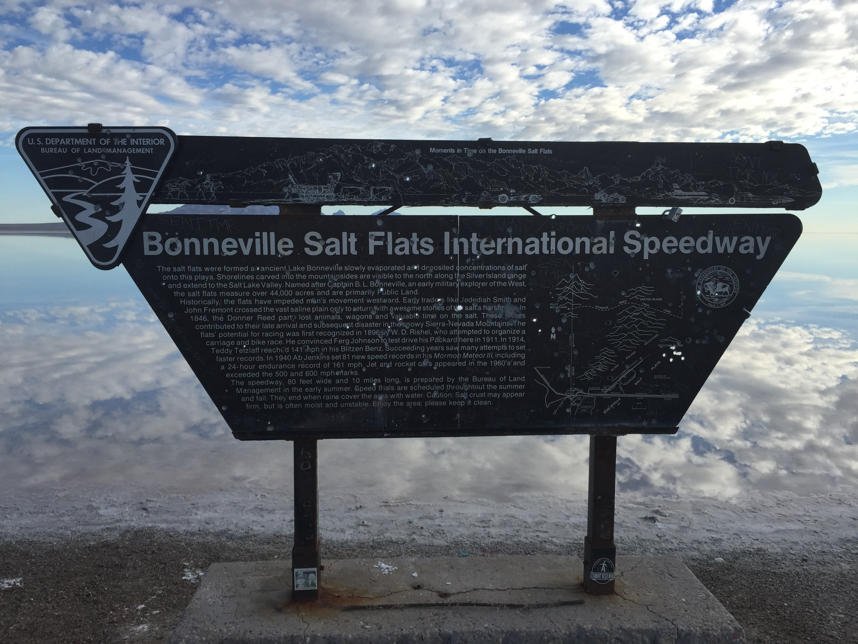 Descriptive sign at the Bonneville Salt Flats International Speedway near Wendover, Utah